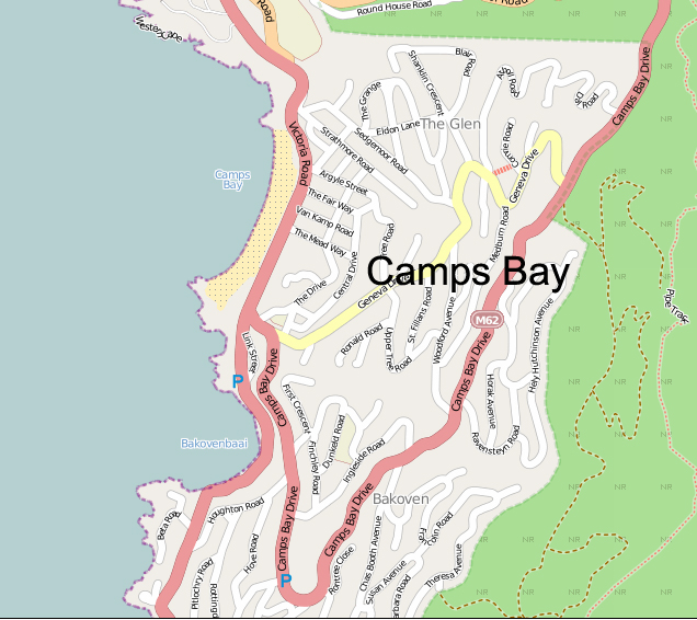 This map may be incomplete, and may contain errors. Don't rely solely on it for navigation.